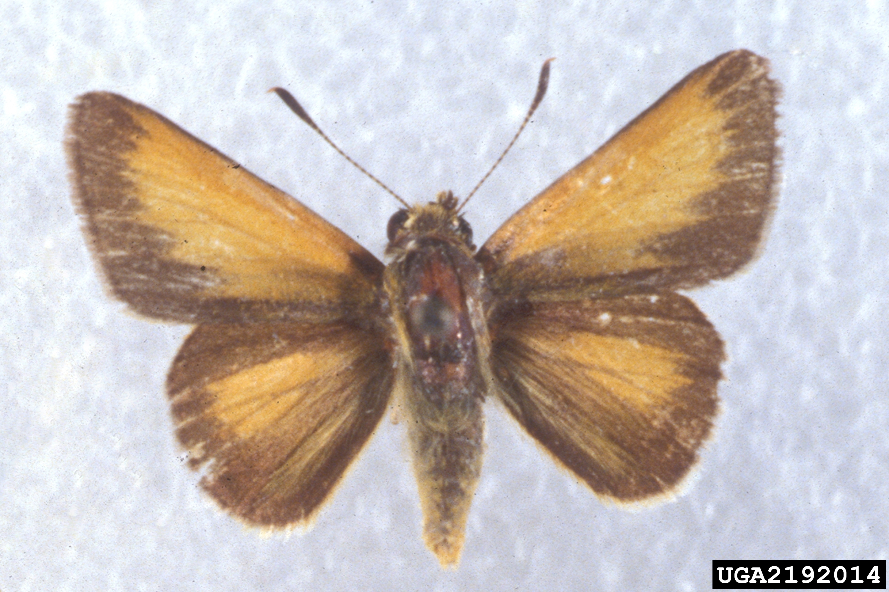 Atrytone arogos. Oktibbeha County, Clayton Village, Mississippi, United States.